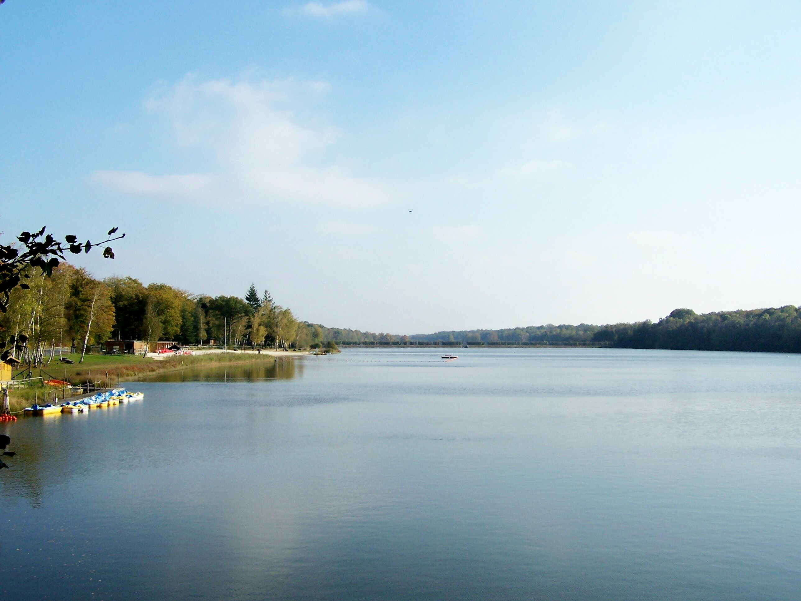 Lake of Hollande in the forest of Rambouillet (Yvelines, France)